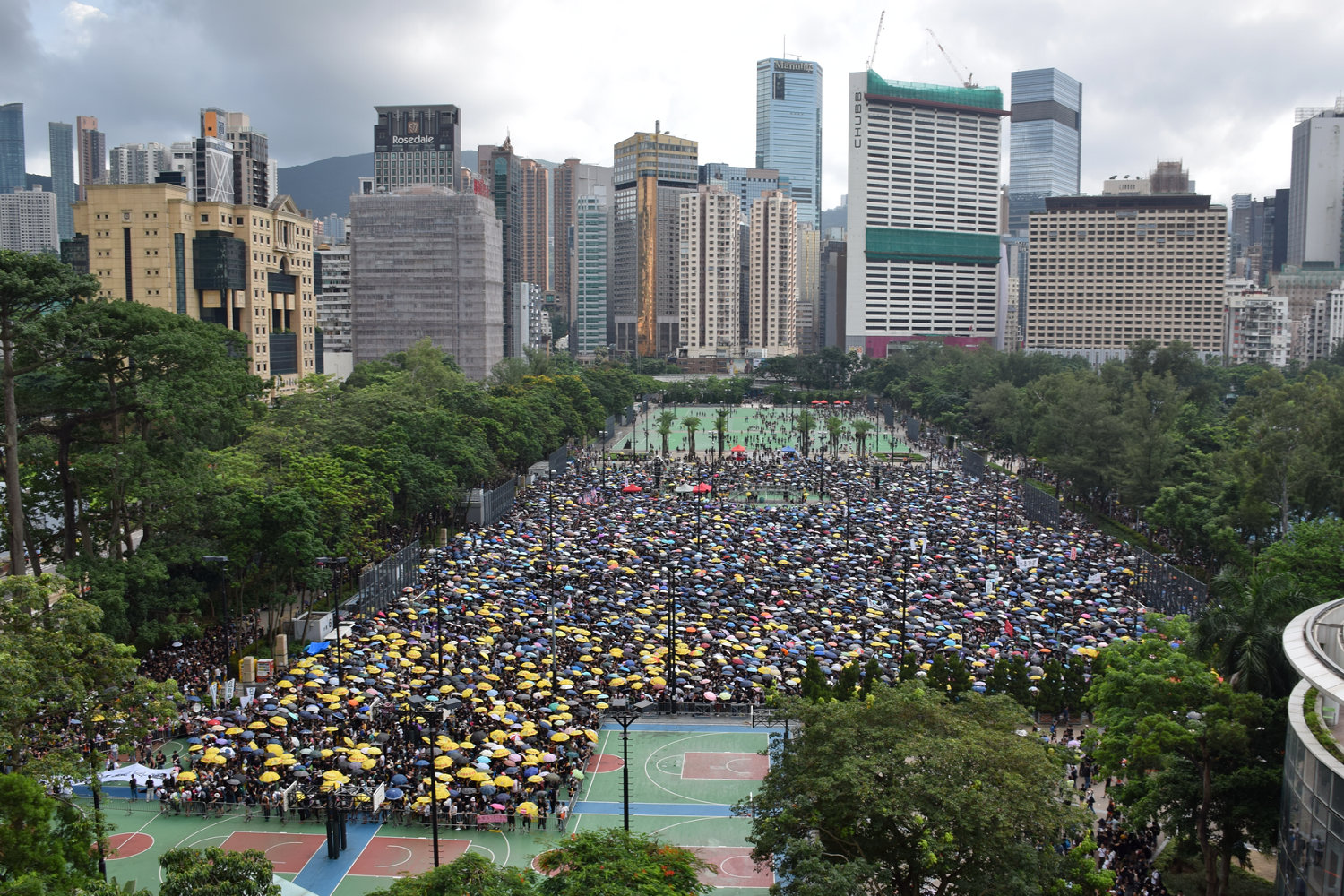 Civil Human Rights Front 7.21 Rally - Participants were waiting for departure in Victoria Park.